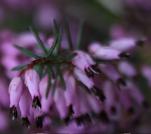 Erica carnea